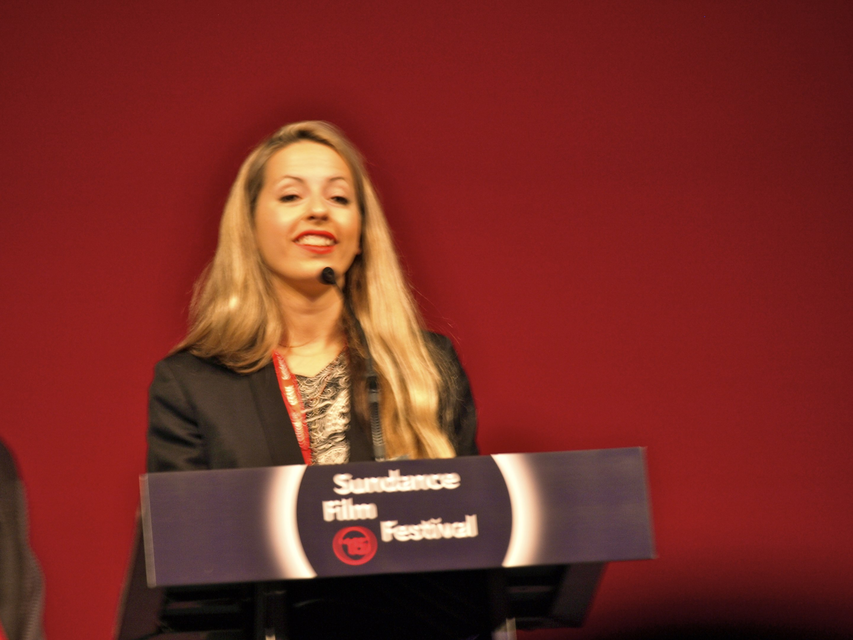 Crystal Moselle: "The Wolfpack" wins the U.S. Documentary Grand Jury Prize at Sundance 2015